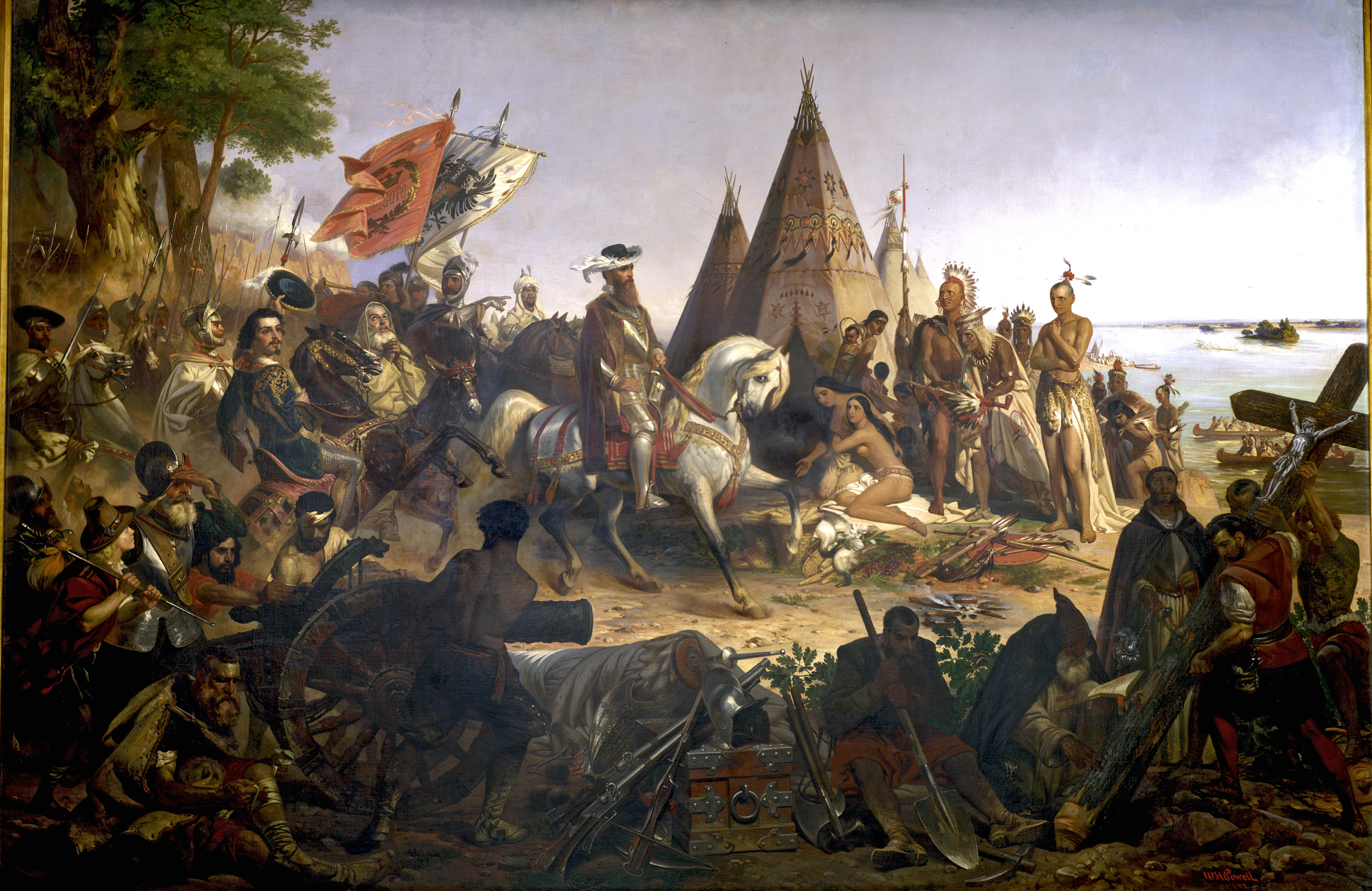 William H. Powell was the last artist to be commissioned by the Congress for a painting in the Rotunda. His dramatic and brilliantly colored canvas shows Spanish conqueror and explorer Hernando DeSoto, riding a white horse, the first European to view the Mississippi River, in 1541. As De Soto and his troops approach, the Native Americans in front of their tepees watch, and a chief holds out a peace pipe. In the foreground is a jumble of weapons and soldiers, suggesting the attack they had suffered shortly before. To the right, a monk prays as a crucifix is set in the ground.Powell (1823–1879) was born in New York and raised in Ohio. He studied art in Italy and worked on the painting in Paris. He also painted The Battle of Lake Erie, which hangs in the east Senate Grand Staircase in the Capitol. The dimensions of this oil painting on canvas are 365.76 cm by 548.64 cm (144.00 in by 216.00 in).